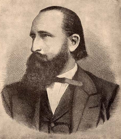 Alfred Brehm